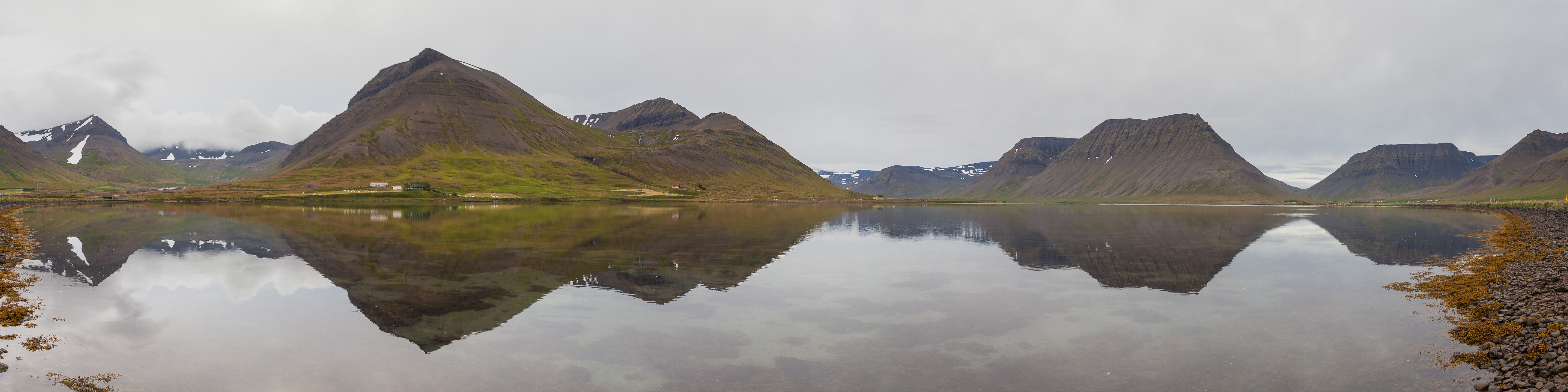 Dýrafjörður, Vestfirðir, Iceland